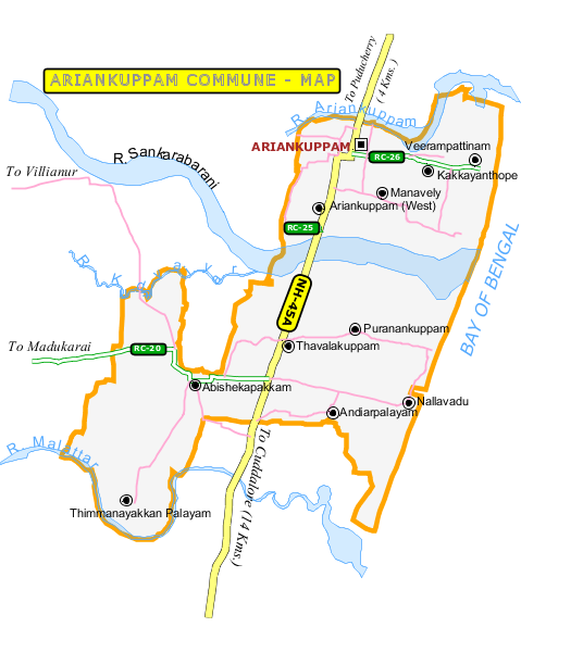 Ariankuppam Commune Map. Ariankuppam is a part of Puducherry Union Teritory,India